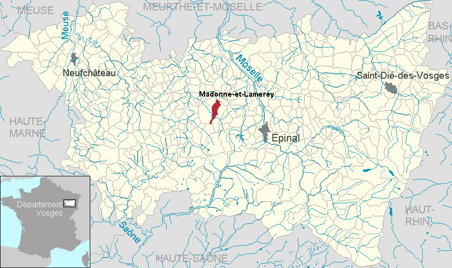 Madonne-et-Lamerey in the department of Vosges, Lorraine, France